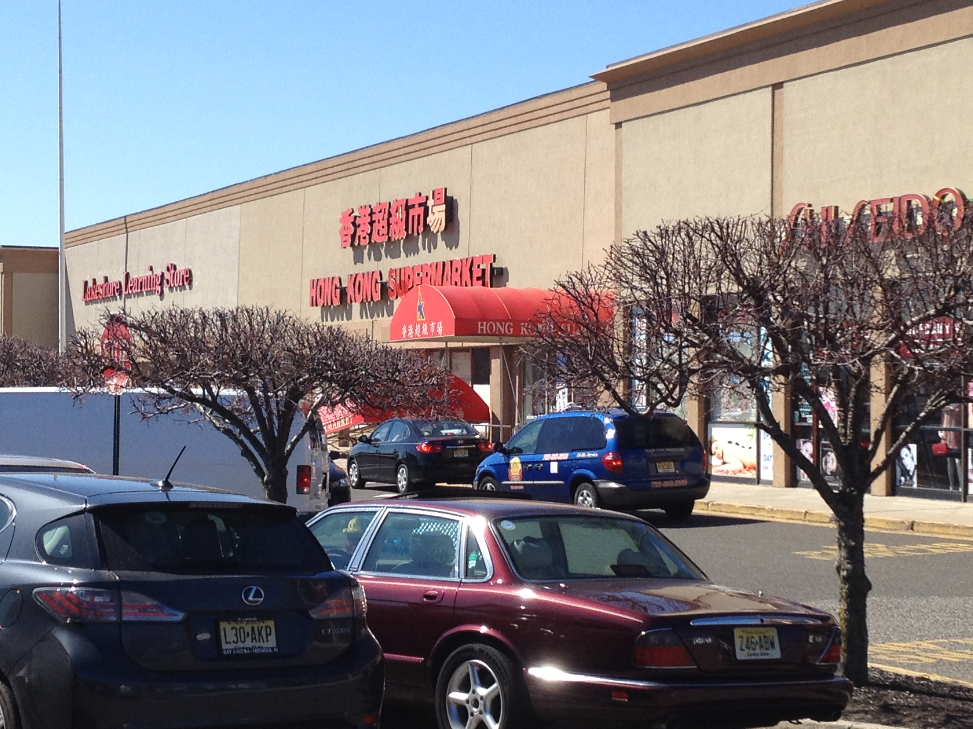 HK Supermarket E. Brunswick, NJ, from my own camera